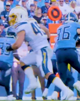 Drue Tranquill 2019. Image from video Timely 3rd Down Conversions vs. Chargers | Beneath the Surface, ~ 00:51.